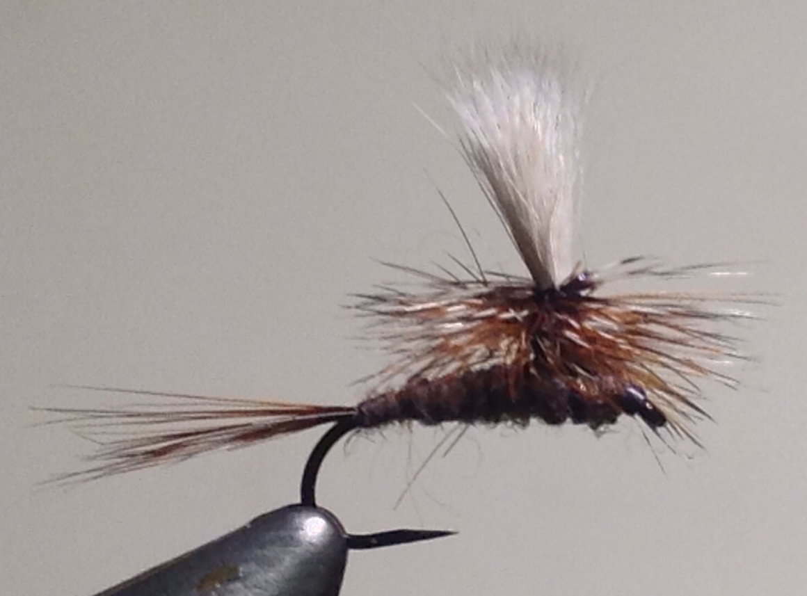 Parachute Adams dry fly in vise